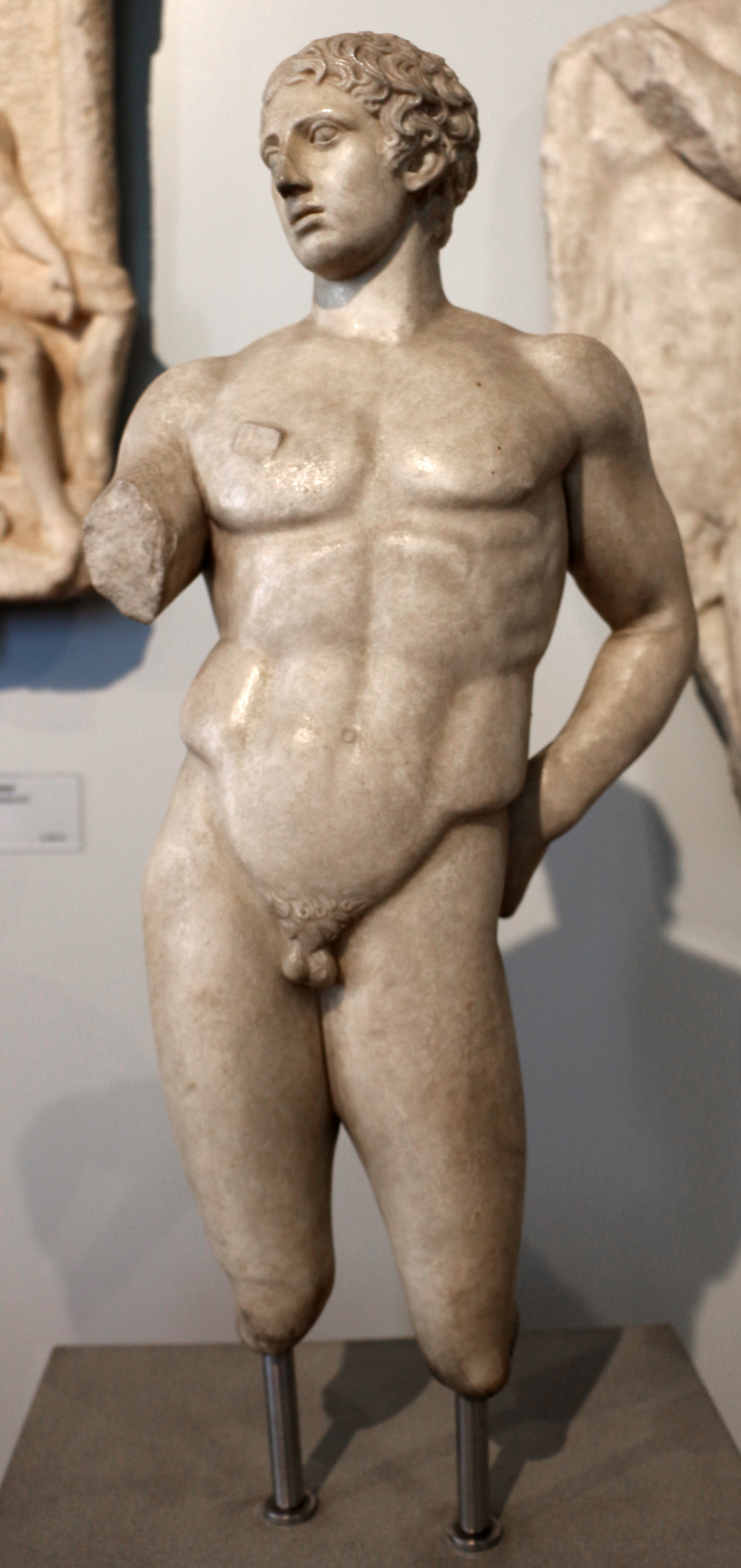 Roman antiquities in Museo Barracco (Rome)